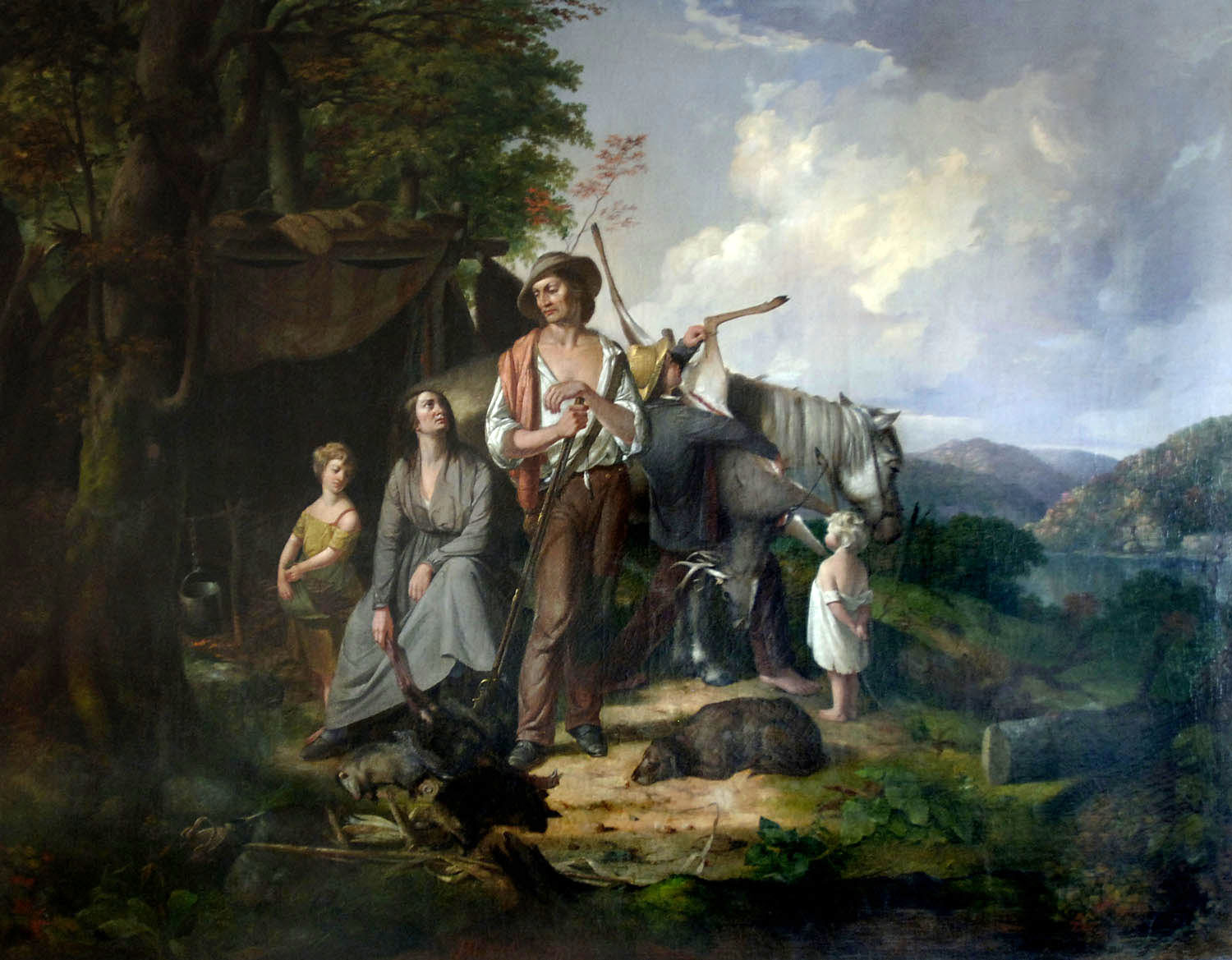 James Henry Beard, Westward Ho!, 1850, 1968.3.1, 62" x 80"